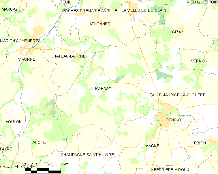 Map of French municipality Marnay